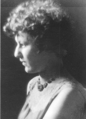 Portrait of Tillie from the late 1920s.